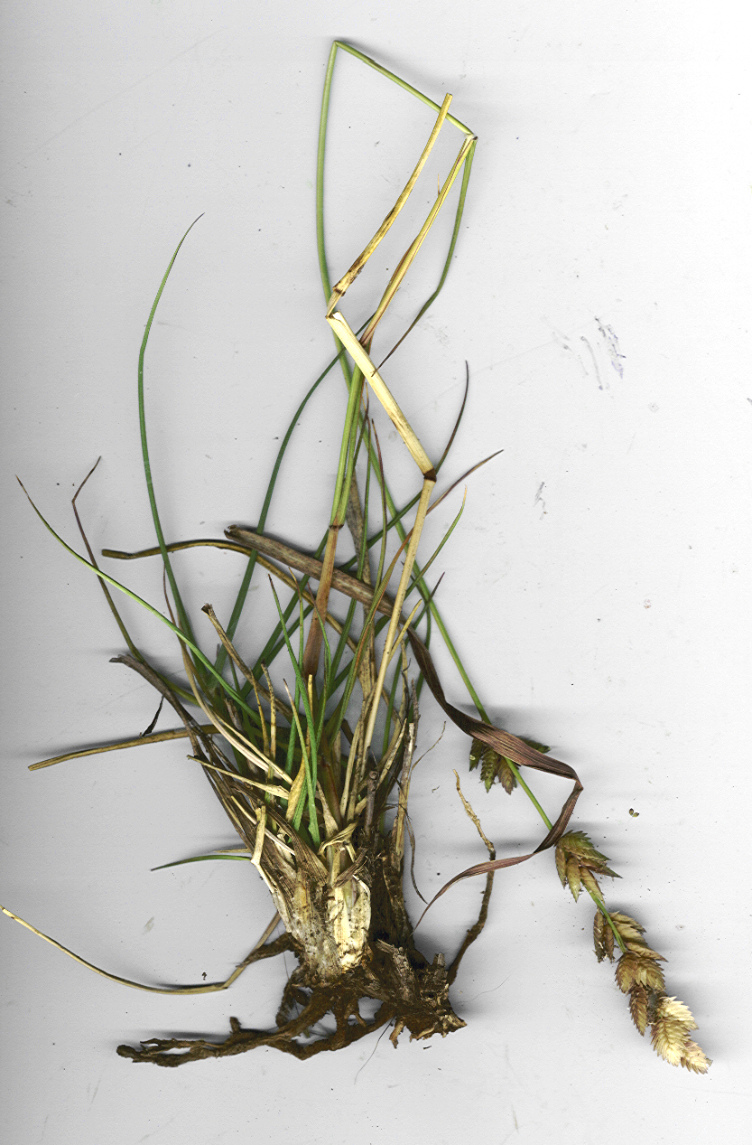 Eragrostis superba (plant). Location: Hawaii, Waimea